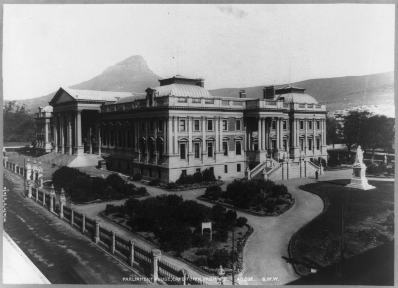 Title: Parliament House, Capetown, South Africa Physical description: 1 photographic print. Notes: Frank and Frances Carpenter Collection.